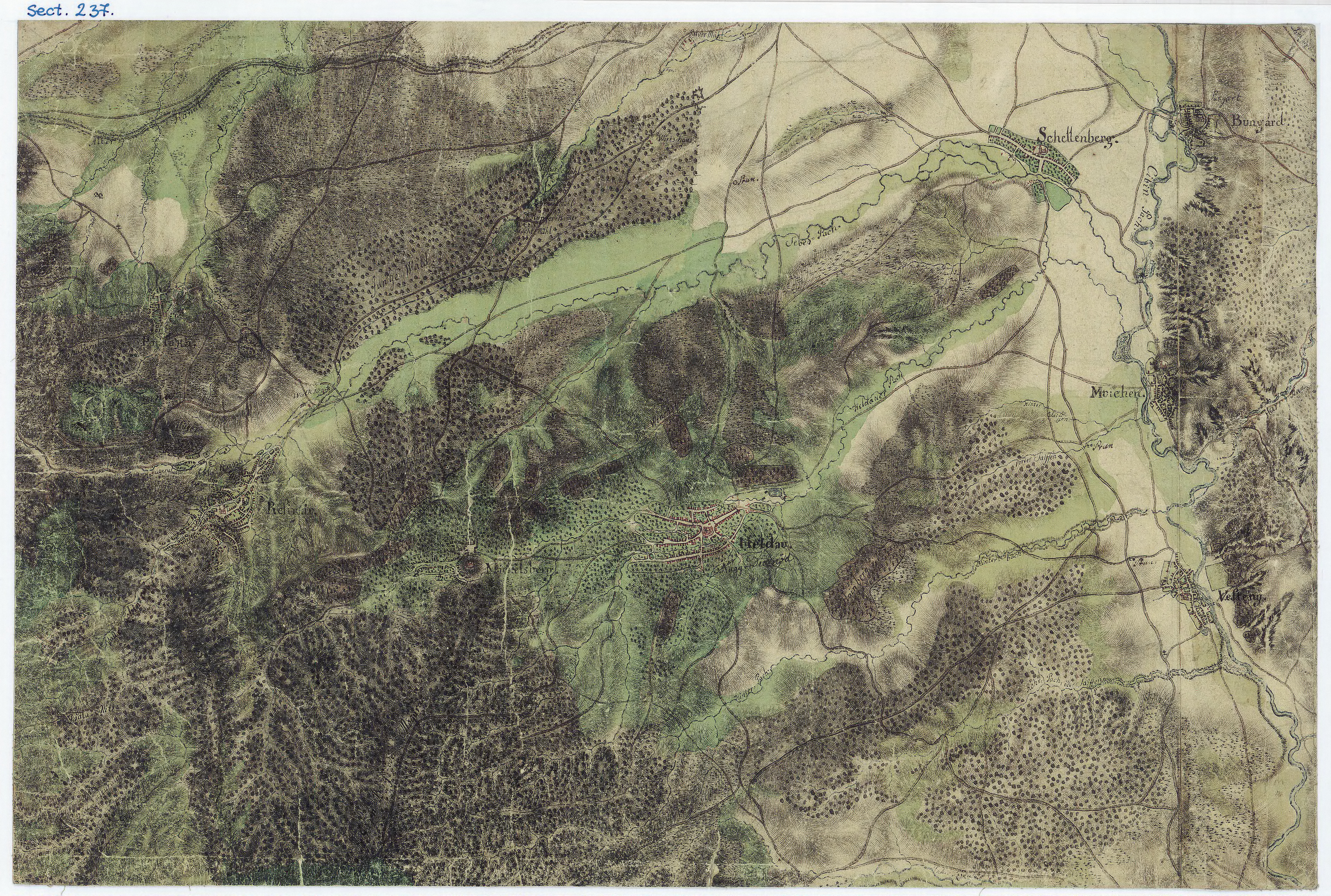 Grand Duchy of Transylvania, 1769-1773. Josephinische Landaufnahme pg.237